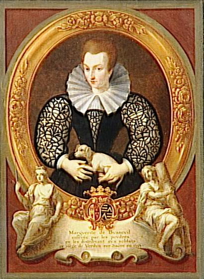 Marguerite de Busseuil, épouse d'Héliodore de Thiard de Bissy (1564-1593)